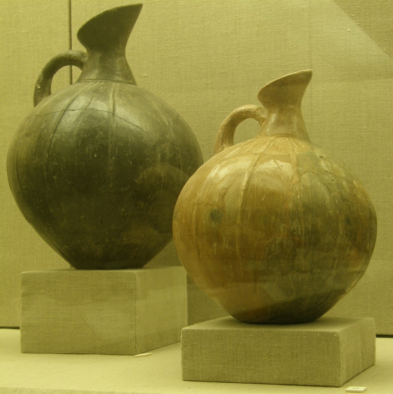 Prohoi from Christiani, Santorini, Greece